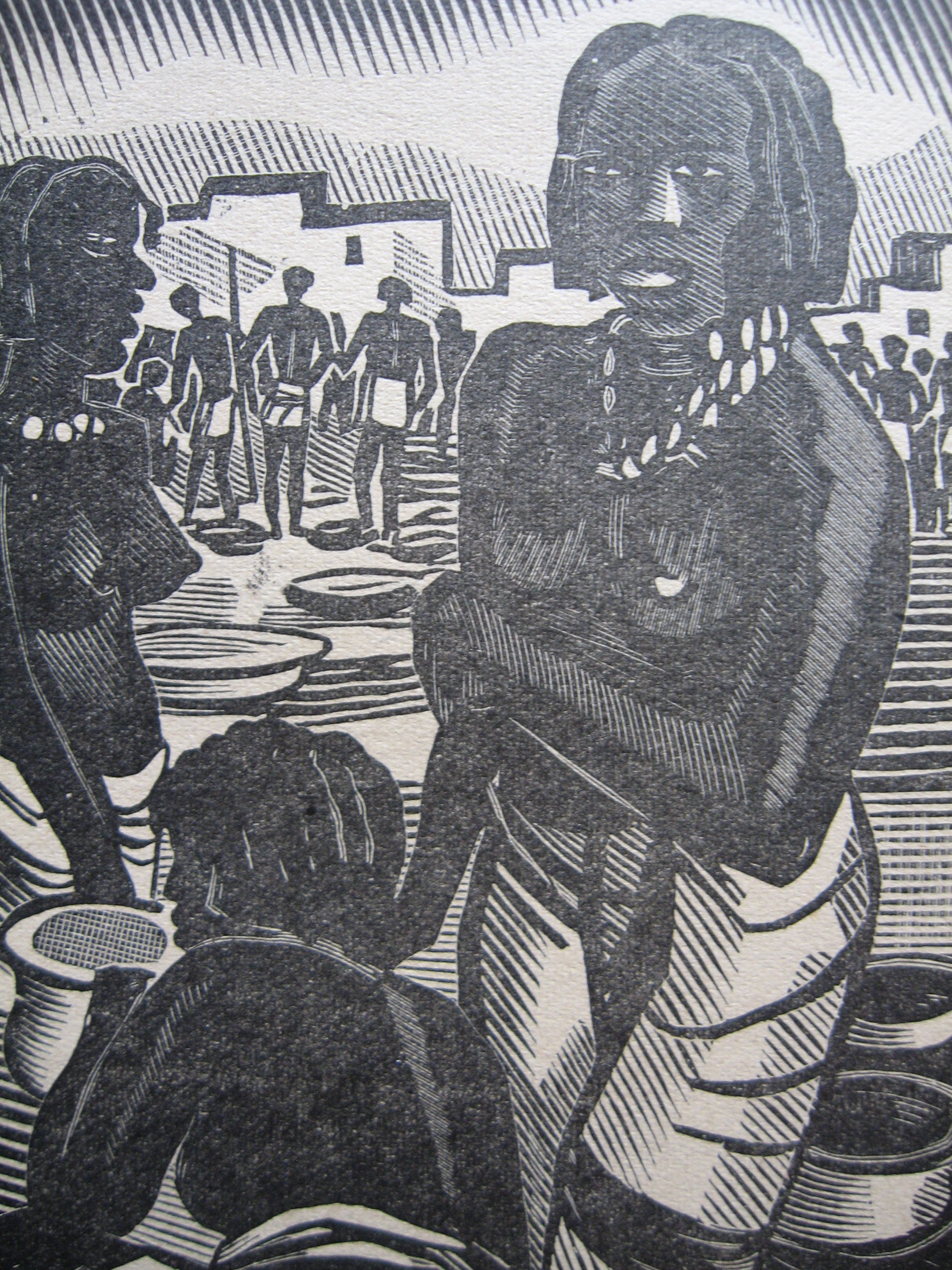 Original woodcut by painter-illustrator Louis-Robert Antral (1895-1939) contained in Henry de Monfreid's Le Chant du Toukan (Fayard, 1937). Antral's 27 woodcuts depict various scenes and landscapes of the Red Sea at that time, such as Moka and Djibouti, Arab dhows, etc. or episodes of the life of Monfreid in the Red Sea or Ethiopia.